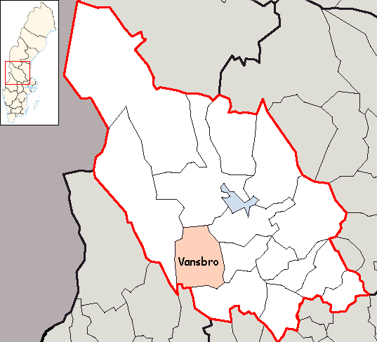 Vansbro Municipality in Dalarna County Designd by me, based on Image:Dalarna County.png